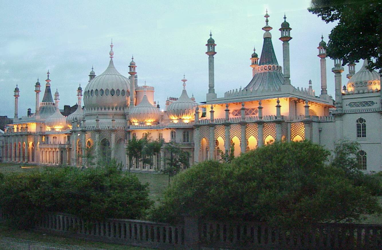 Islamic on the outside, Far Eastern inside with its enchanted skyline - the Royal Pavilion, Brighton